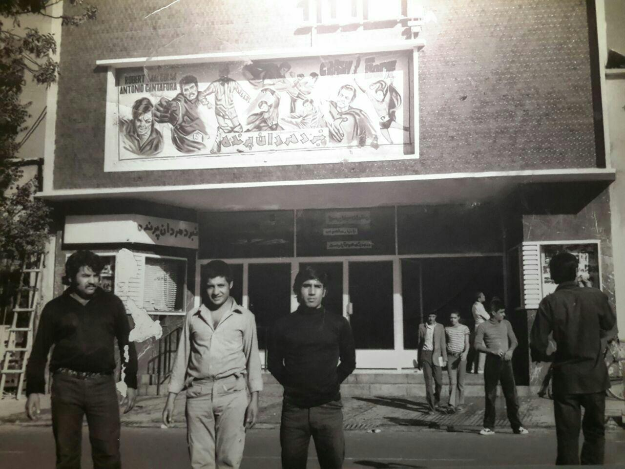 cinema in shiraz